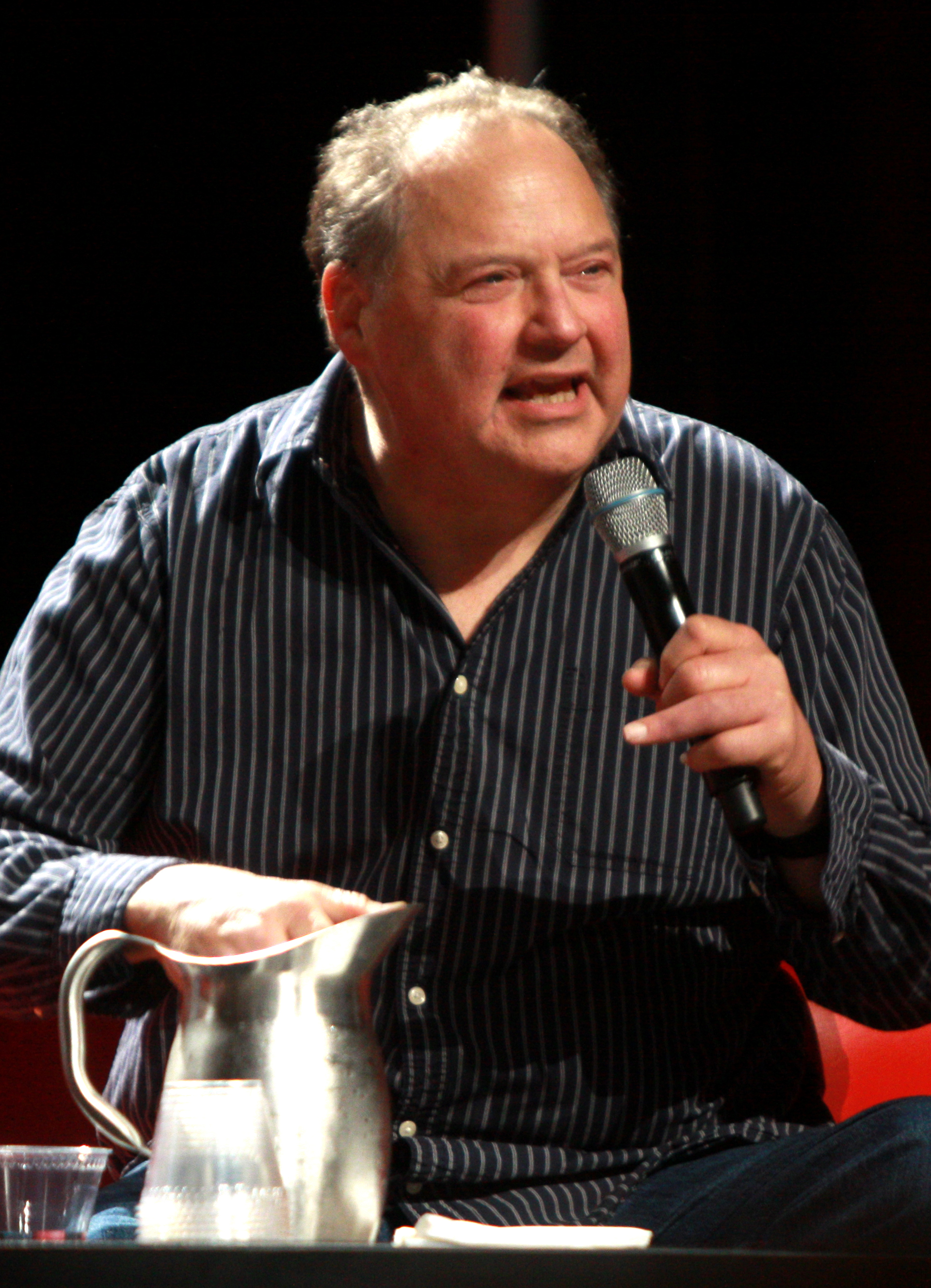 Stephen Furst at the 2013 Phoenix Comicon in Phoenix, Arizona.